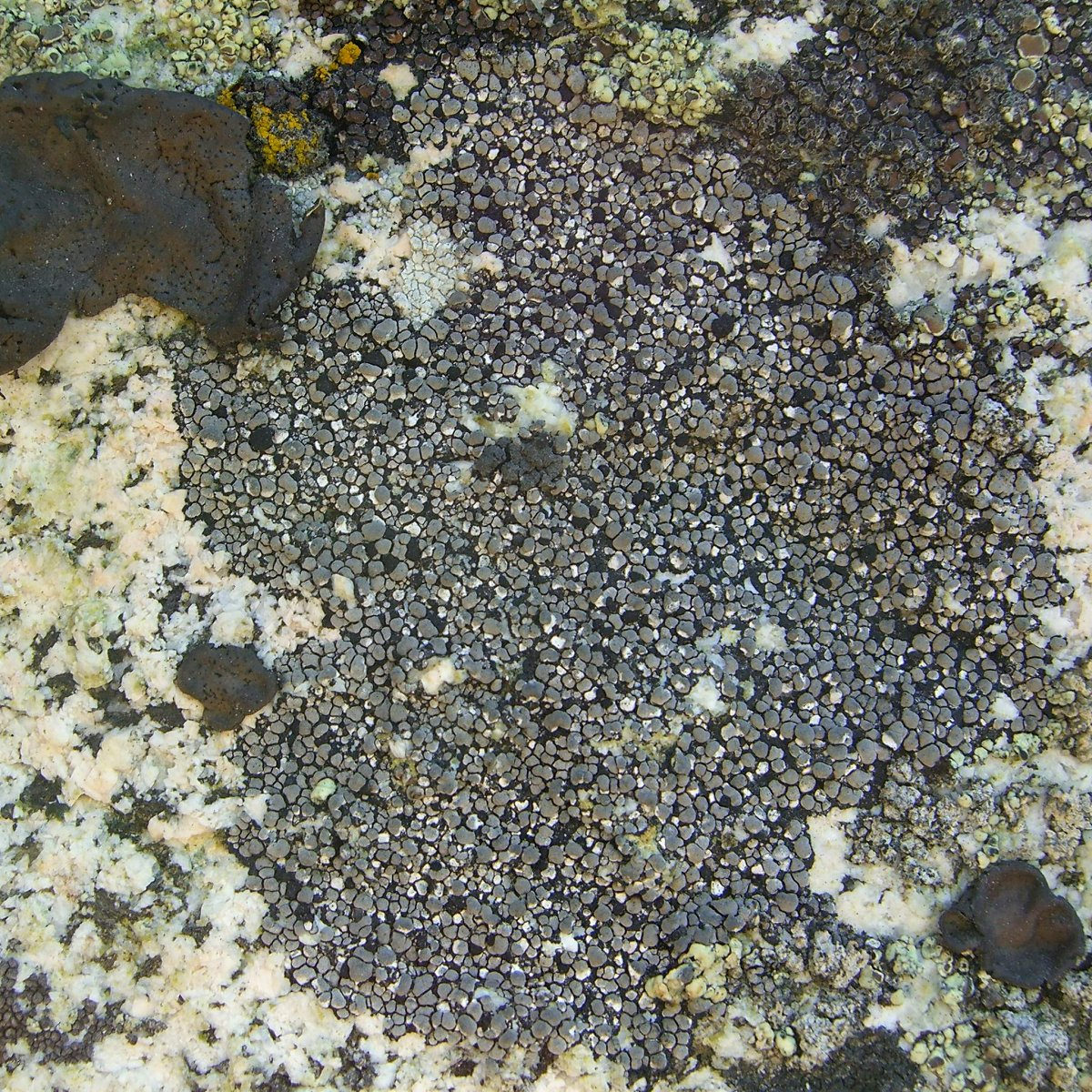 Scientific Name: Rhizocarpon disporum (Nageli ex Hepp) Mull. Arg. Common Name: Single-Spored Map Lichen Certainty: guess (notes) Location: California; San Gabriels Front Range; Mt Wilson Date: 20070715 Also Umbilicaria phaea Tuck. -- Emery Rock Tripe (positive).